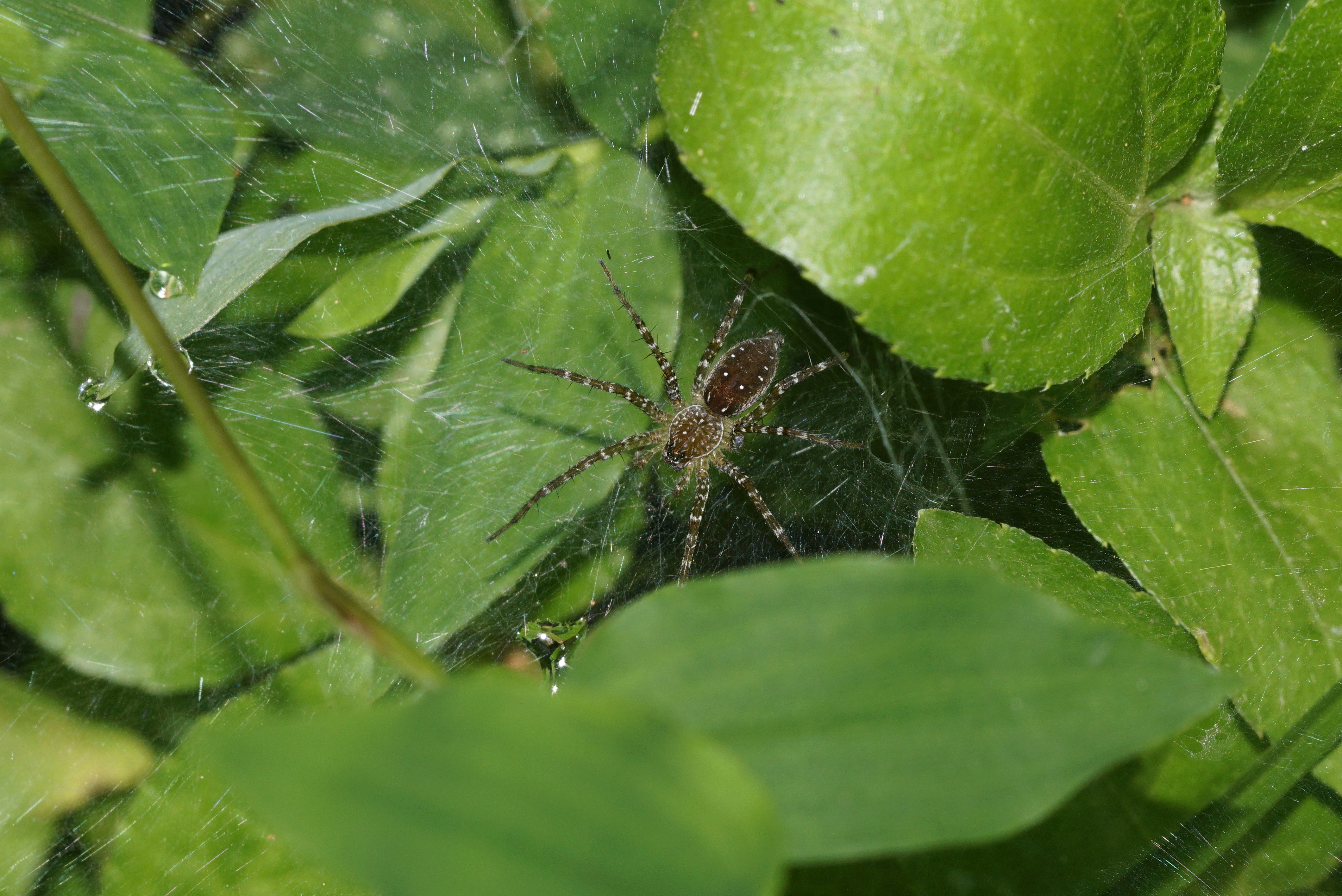 Hippasa agelenoides